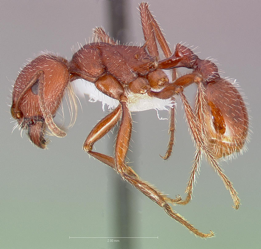 Profile view of ant Pogonomyrmex occidentalis specimen casent0005718.